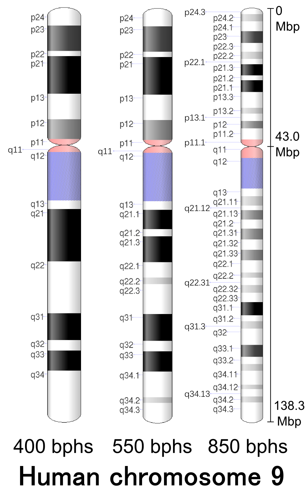 Ideograms of G-band pattern of human chromosome 9 in three different resolutions (400, 550 and 850 bphs, bands per haploid set). Different resolutions are corresponding to different band patterns observed through mitotic phase (about relation between banding resolution and mitotic phase, see, for example, Fig.3 in W Sethakulvichaia (2012)). Legend: Black and gray is Giemsa positive. Red is centromere. Light blue is variable region. Dark blue is stalk. At the right, centromere position (center) and q arm terminus position (bottom), counted from p arm terminus (top) in Mbp (mega base pairs), are labeled. Physical length (sometimes referred as "absolute length") is not labeled. Because physical length of chromosomes vary while mitosis. (typical human chromosome physical length is in the order of from several micrometers to ten and several micrometers. See, for example, Category:Human chromosome images with scale bars.).